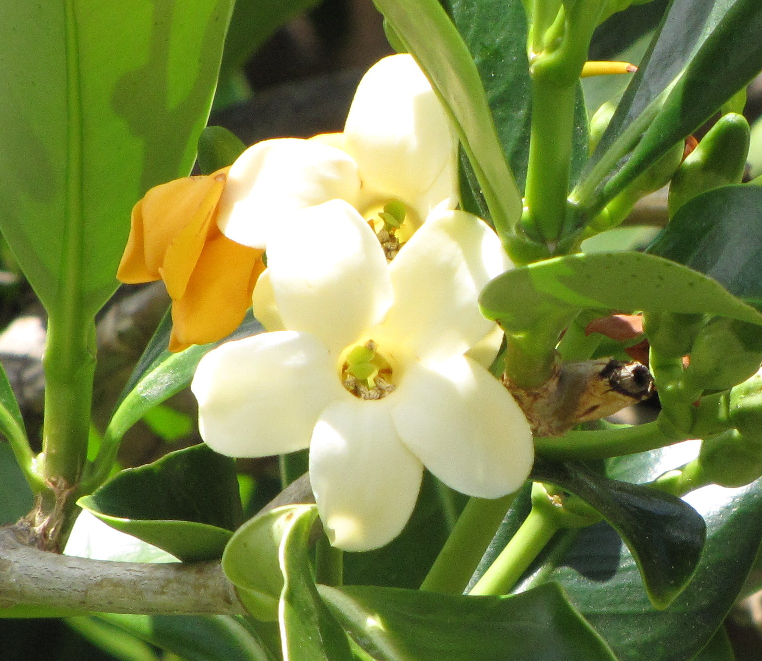 Fagraea berteroana (flower). Location: Wailuku, Maui